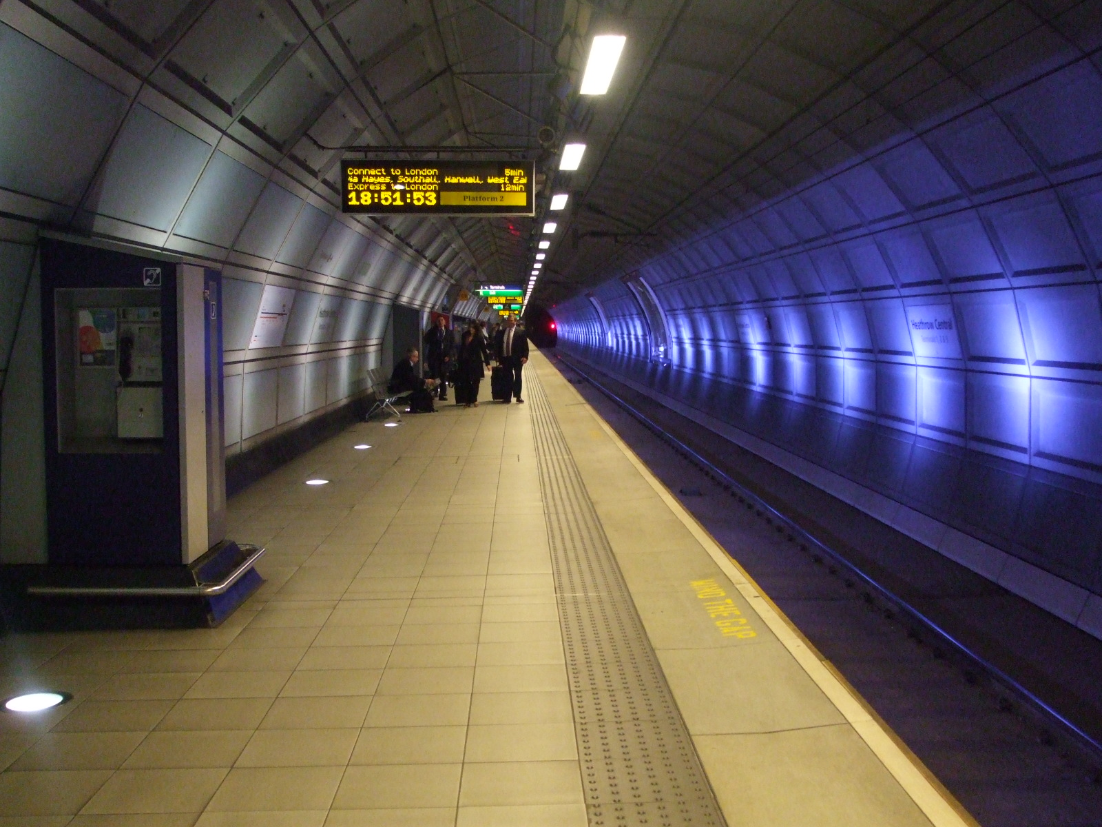 Heathrow Central station eastbound platform looking west. Served by both Heathrow Express (from Terminal 5 only) and Heathrow Connect (from Terminal 4 only). Services between the terminals are free of charge.